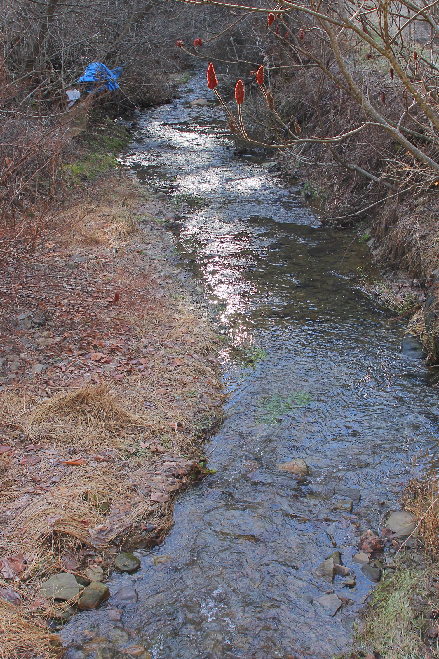 Culley Run looking downstream in its middle reaches